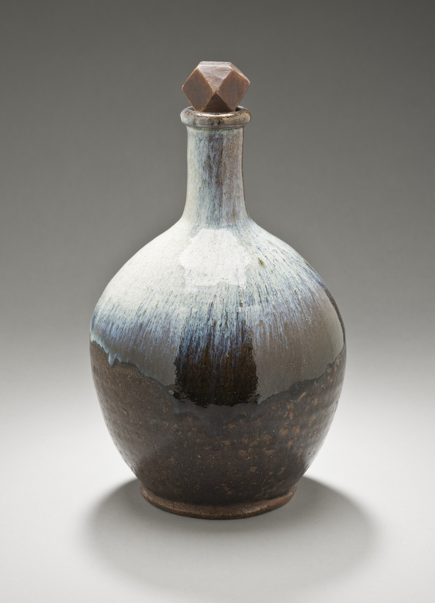 Japan, mid-19th century Alternate Title: Tokkuri Furnishings; Accessories Agano ware; stoneware with iron (brown) and rice straw ash (nuka) glazes Gift of James D. and Veronica H. Roorda (M.2008.264.1a-b) Japanese Art